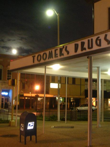 Downtown Auburn, Alabama at night